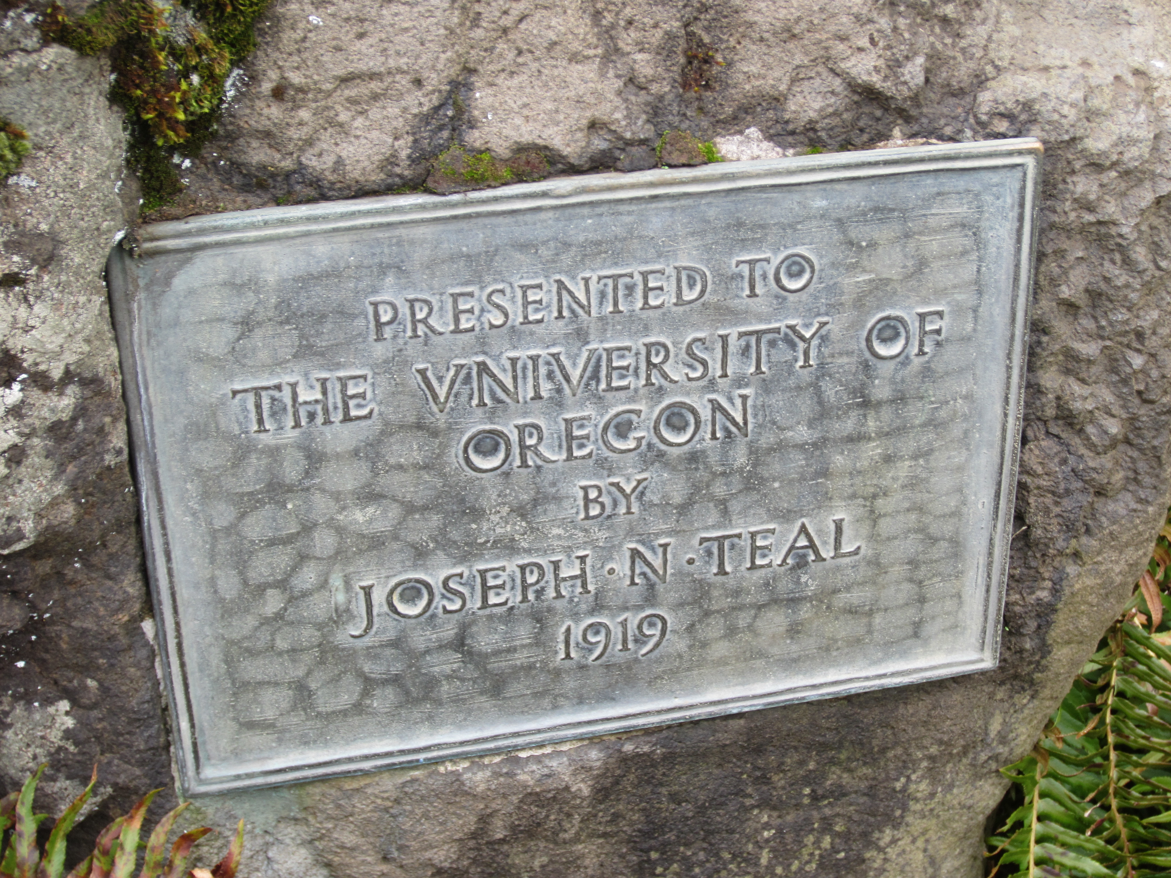 The Pioneer by Alexander Phimister Proctor, located at the University of Oregon campus in Eugene, Oregon (2014)